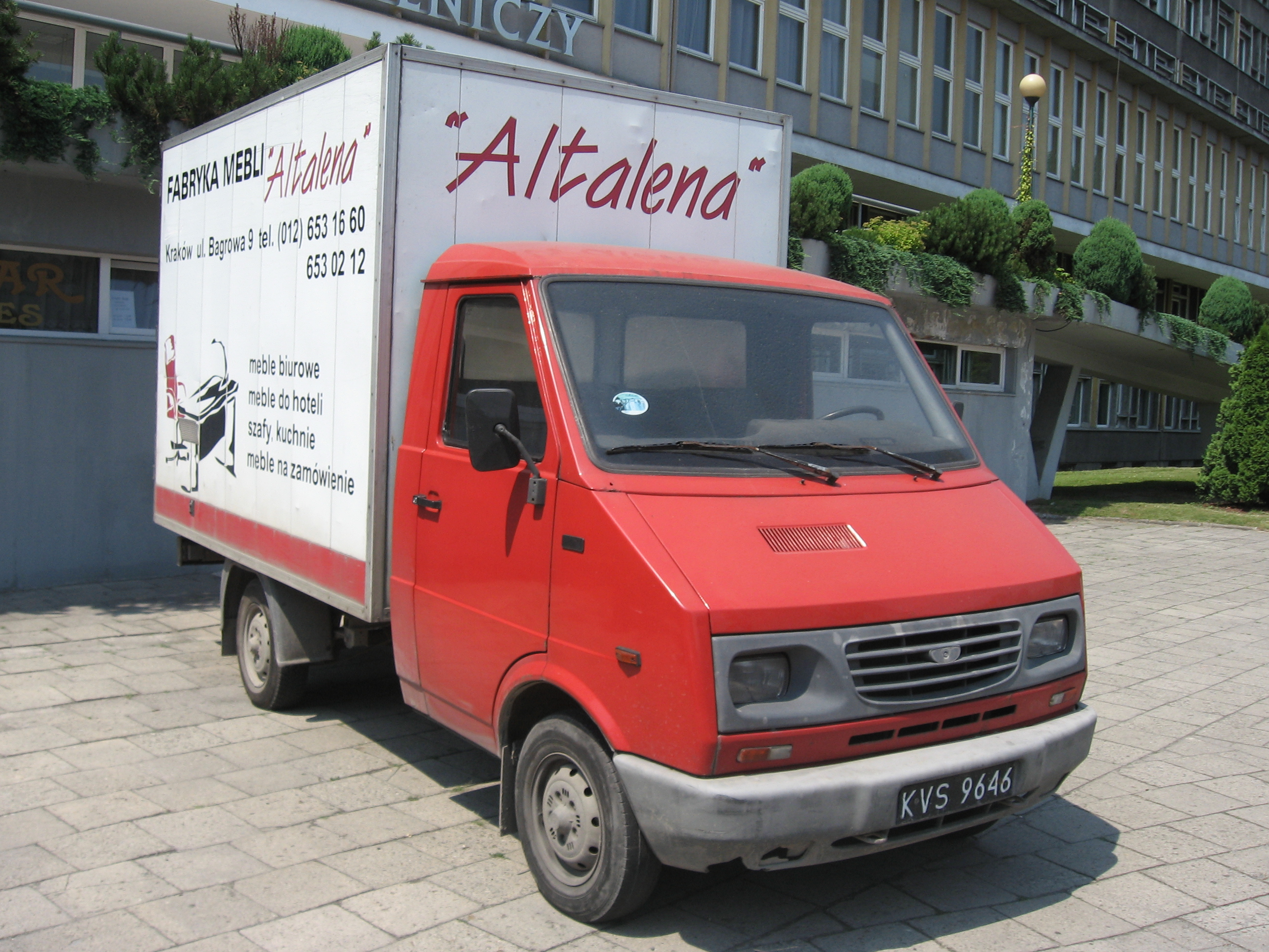 Daewoo Lublin II in front of the Agricultural University of Cracow, Poland.